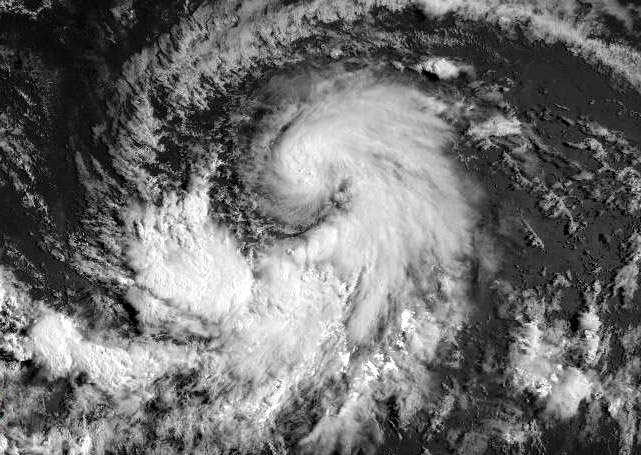 Tropical Storm Bill (2009) in the eastern Atlantic on August 16th. Photographed in visible light by GOES Atlantic Floater 2 at 1115Z